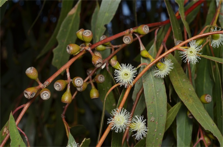 Flower buds, flowers and fruit of Eucalyptus porosa, at Orroroo to Paratoo Road, eastern Flinders Ranges, South Australia